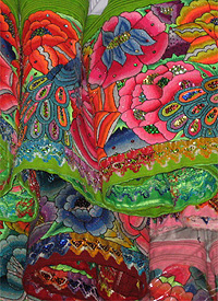 A sample of traditional Peruvian embroidery by the Alfaro-Nùñez family of Cochas.